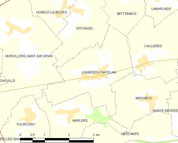 Map of French municipality Lignières-Châtelain